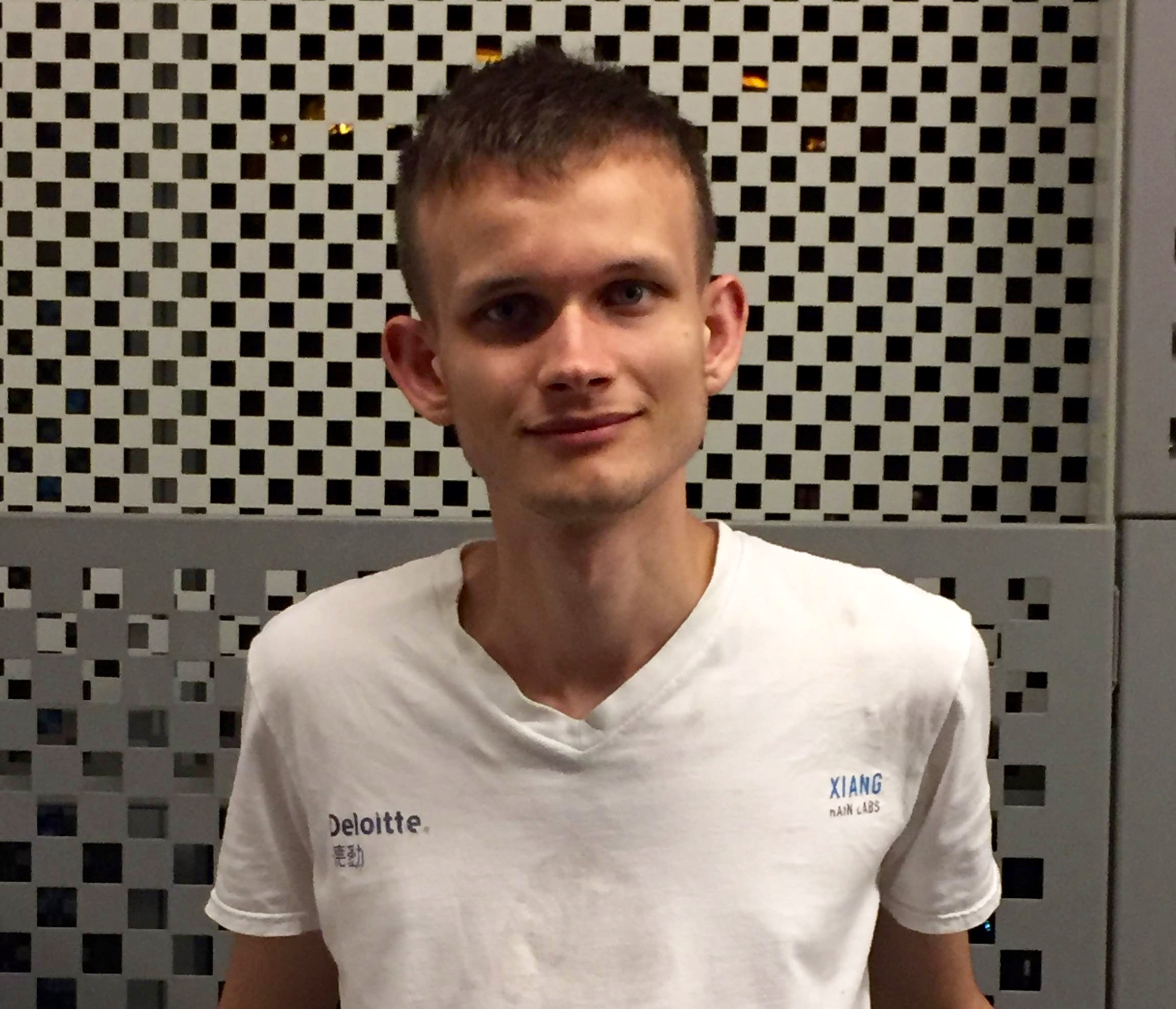 Vitalik Buterin